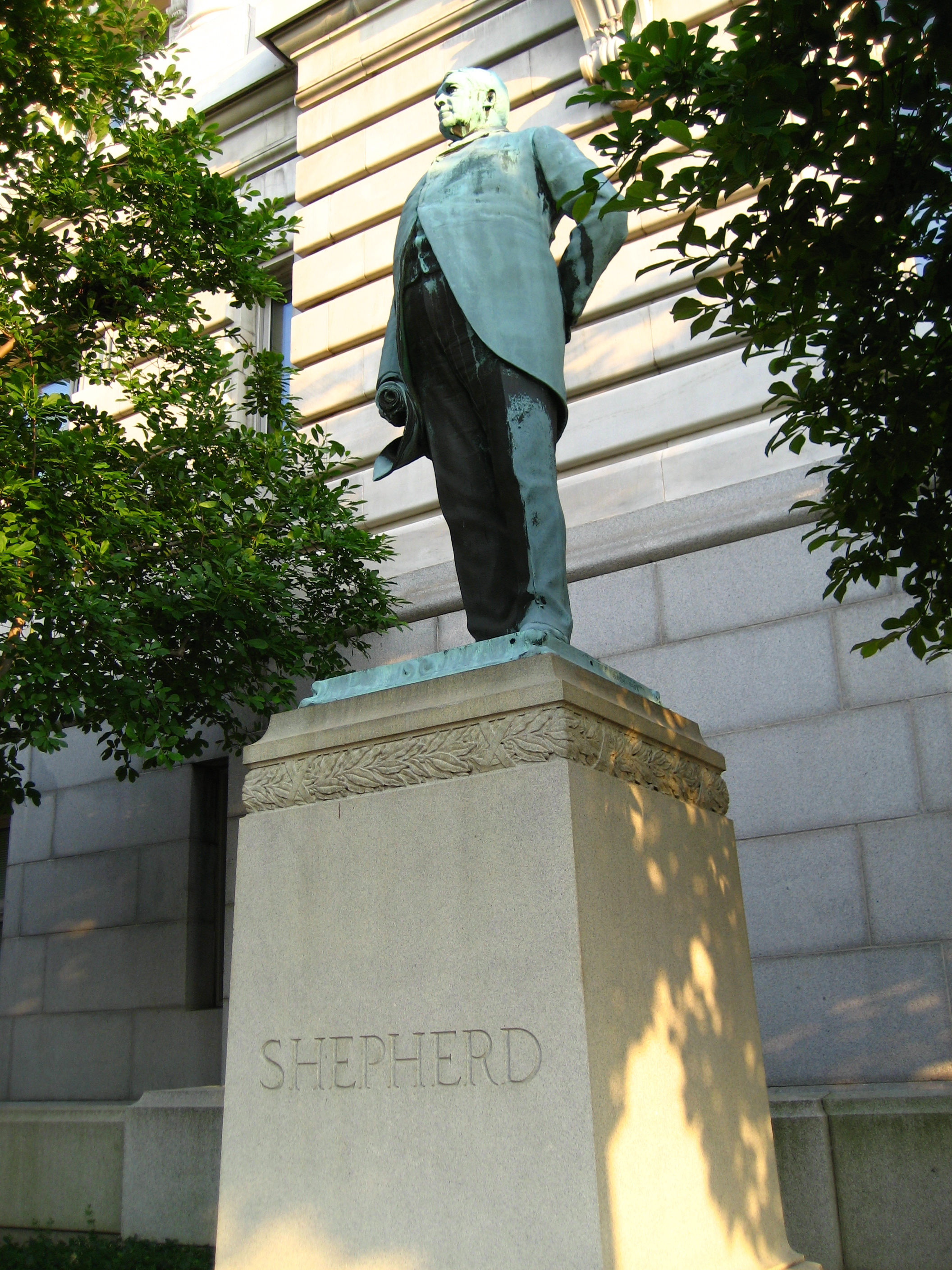 Standing portrait of Shepherd dressed in a suit consisting of a long coat, high-collared shirt, and wide tie. In his proper right hand he holds a scrolled map of the city of Washington down at his side. His proper left arm is bent and rests at the small of his back. His hair is close cropped and he stares straight ahead. The sculpture rests on a two-tiered stone base. Save Outdoor Sculpture, District of Columbia survey, 1993. Source: Inventories of American Painting and Sculpture, Smithsonian American Art Museum, P.O. Box 37012, MRC 970, Washington, D.C. 20013-7012 SOS! Link